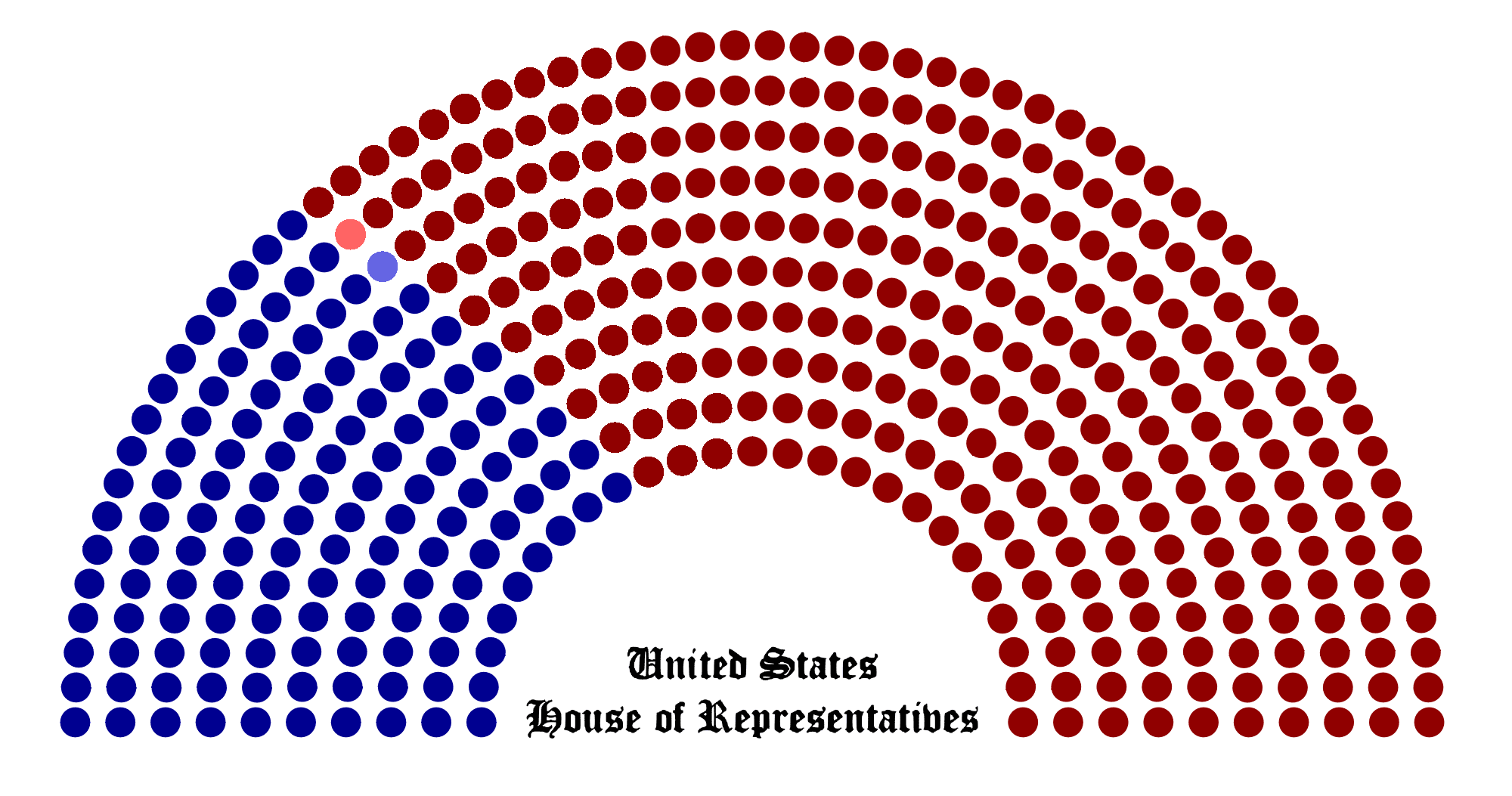 Breakdown of political party representation in the United States House of Representatives at the start of the 67th Congress. Blue: Democrat Light Blue: Socialist Light Red: Independent Republican Red: Republican